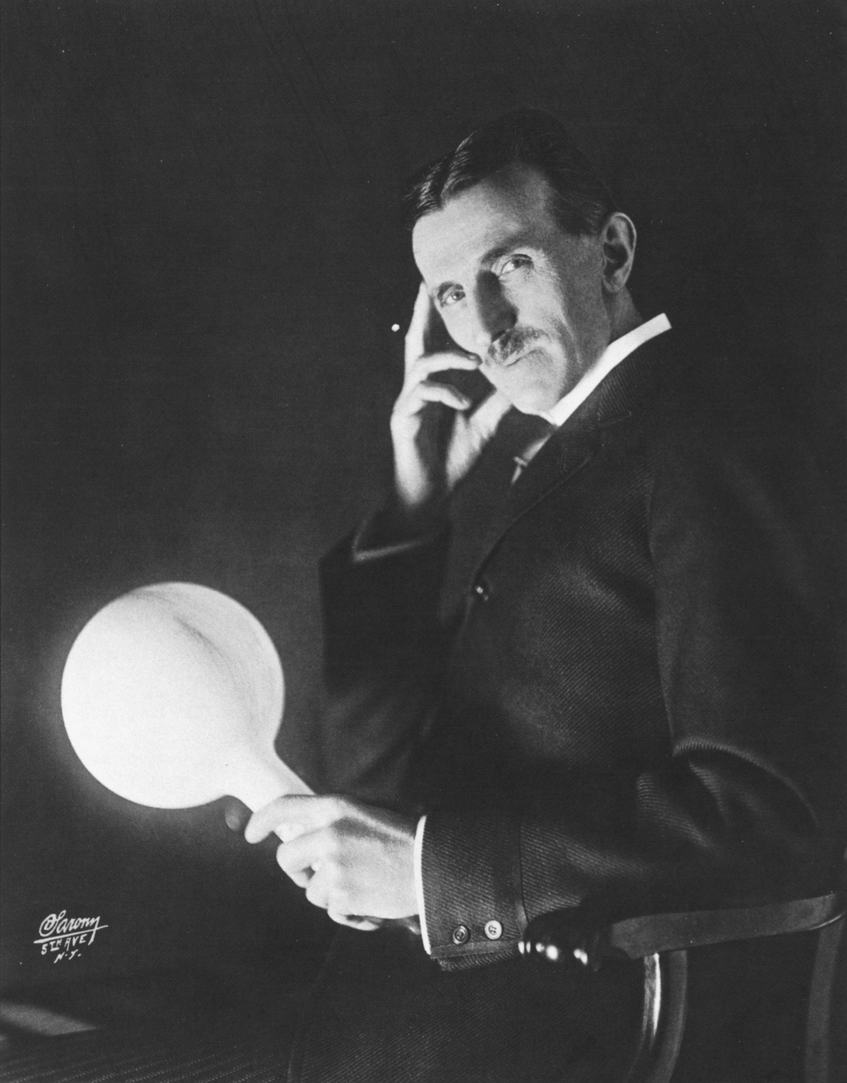 Another experience. Tesla carries a lamp for a few meters from the generator, but it continues to shine!